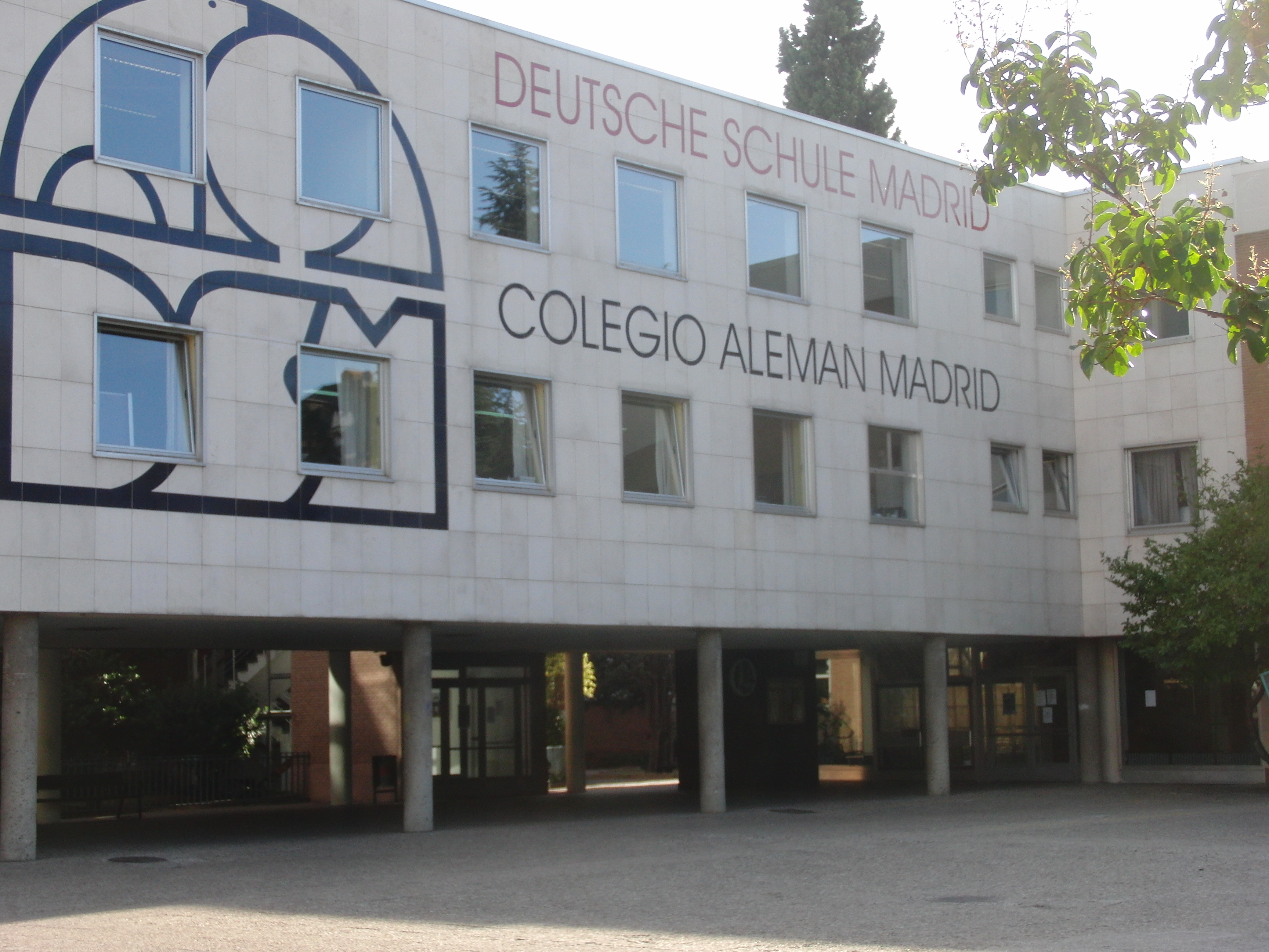 Deutsche Schule Madrid/Colegio Alemán Madrid (former building)